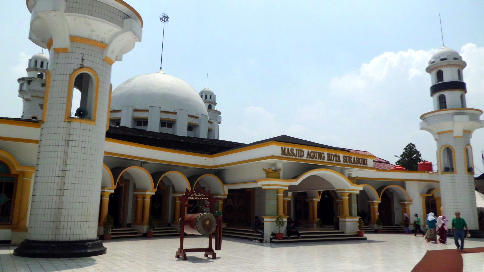 Sukabumi Grand Mosque Courtyard, Sukabumi, West Java, IndonesiaBahasa Indonesia: Halaman Masjid Agung Sukabumi, Kota Sukabumi, Jawa Barat, Indonesia